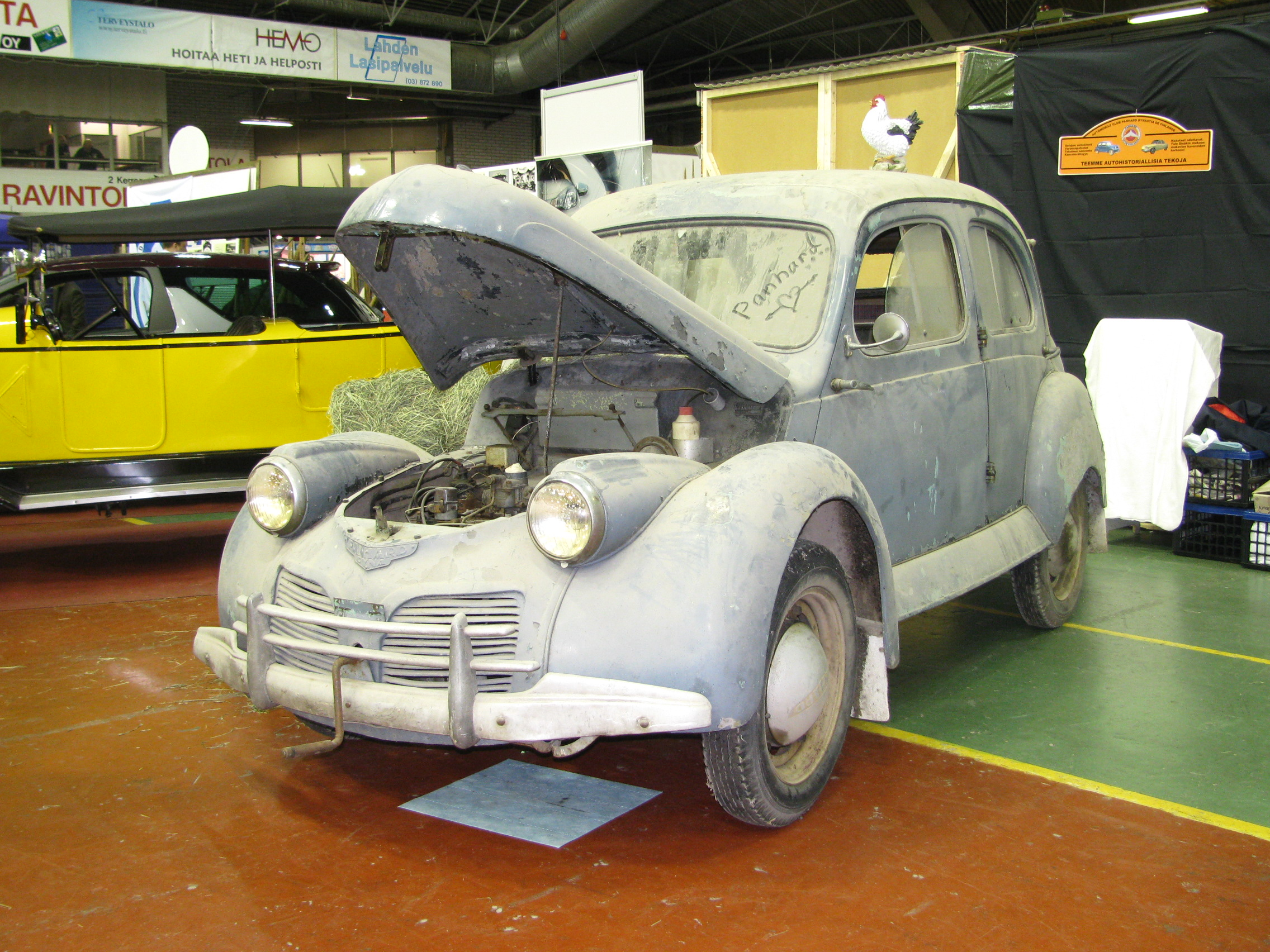 Panhard car in an original comdition. Classic Motor Show in Lahti, Finland.